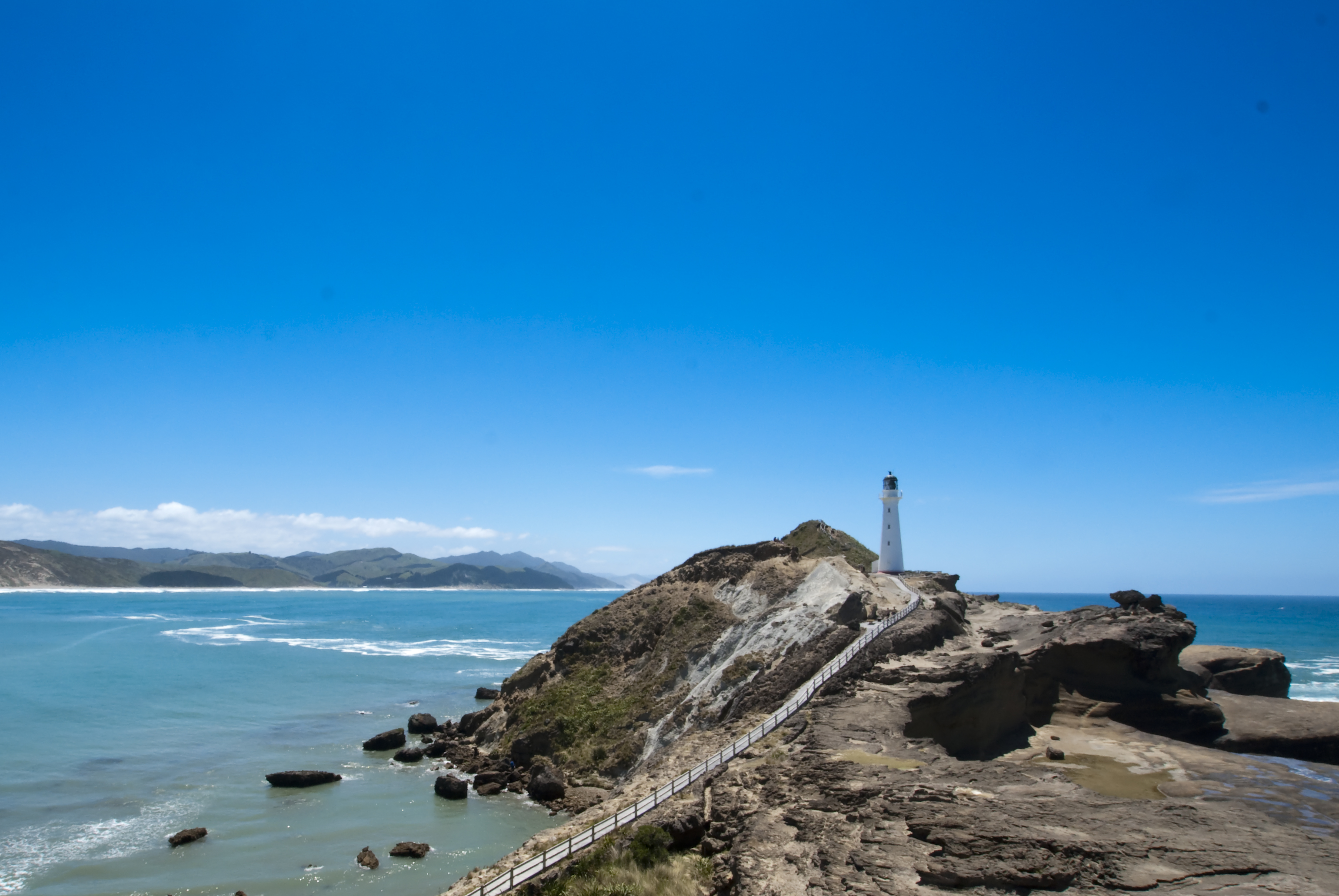 Castle Point Lighthouse, Wairarapa, New Zealand